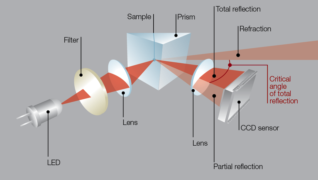 Measuring Principle